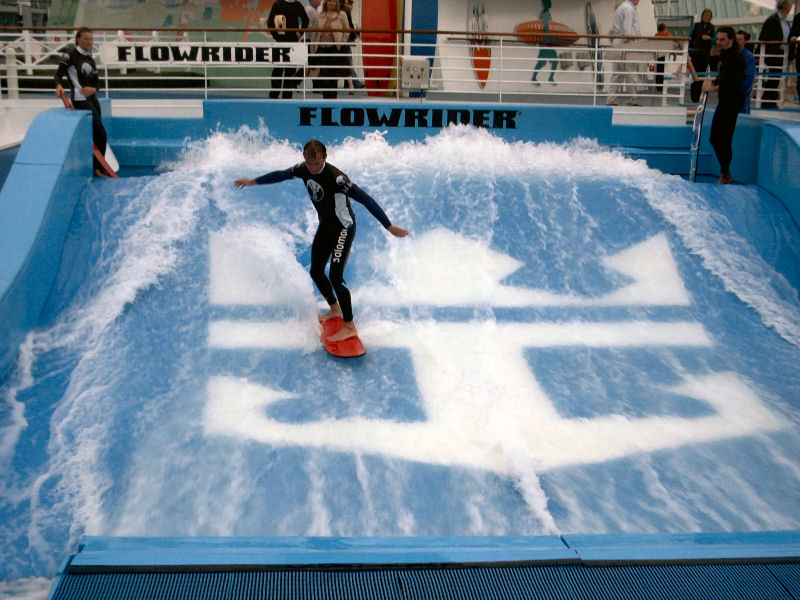 The Flowrider aboard the Royal Caribbean cruiseliner Freedom of the Seas